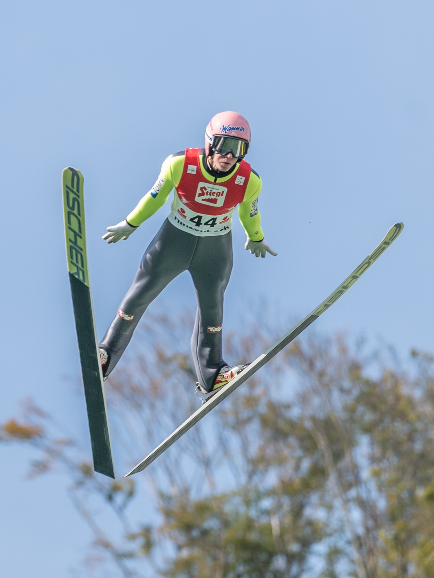 Hinzenbach, Austria, FIS Ski Jumping Grand Prix 2016